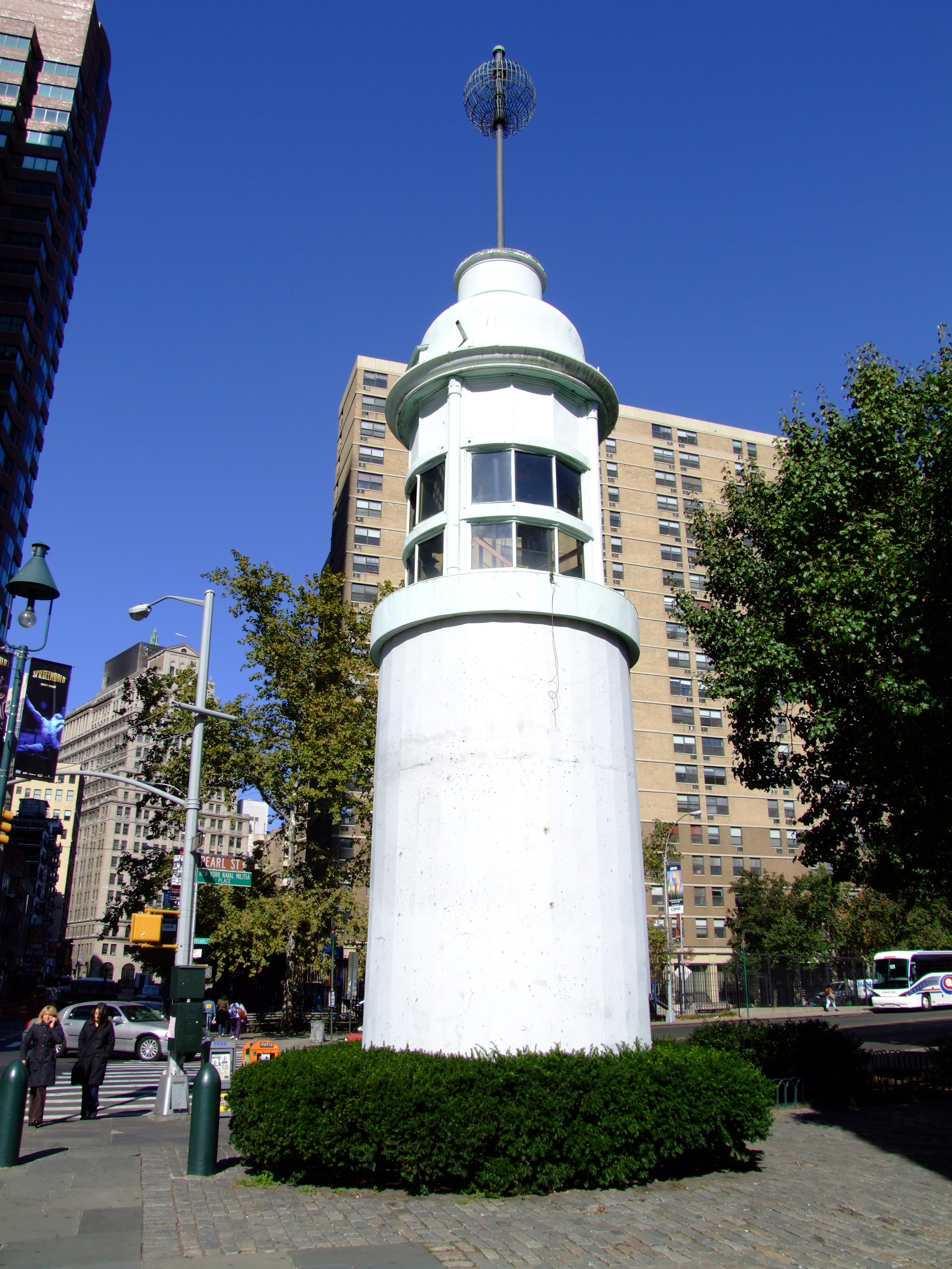 A Lighthouse-esque structure near South Street Seaport Museum, New York City